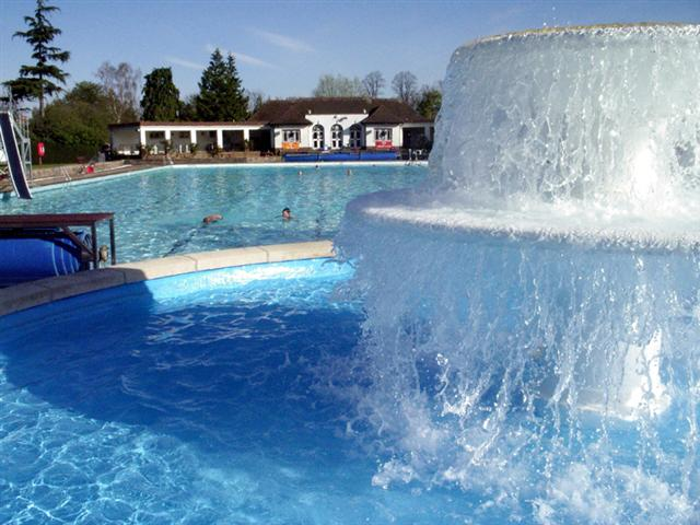 Photo taken by Iain Barton - Please credit Iain Barton